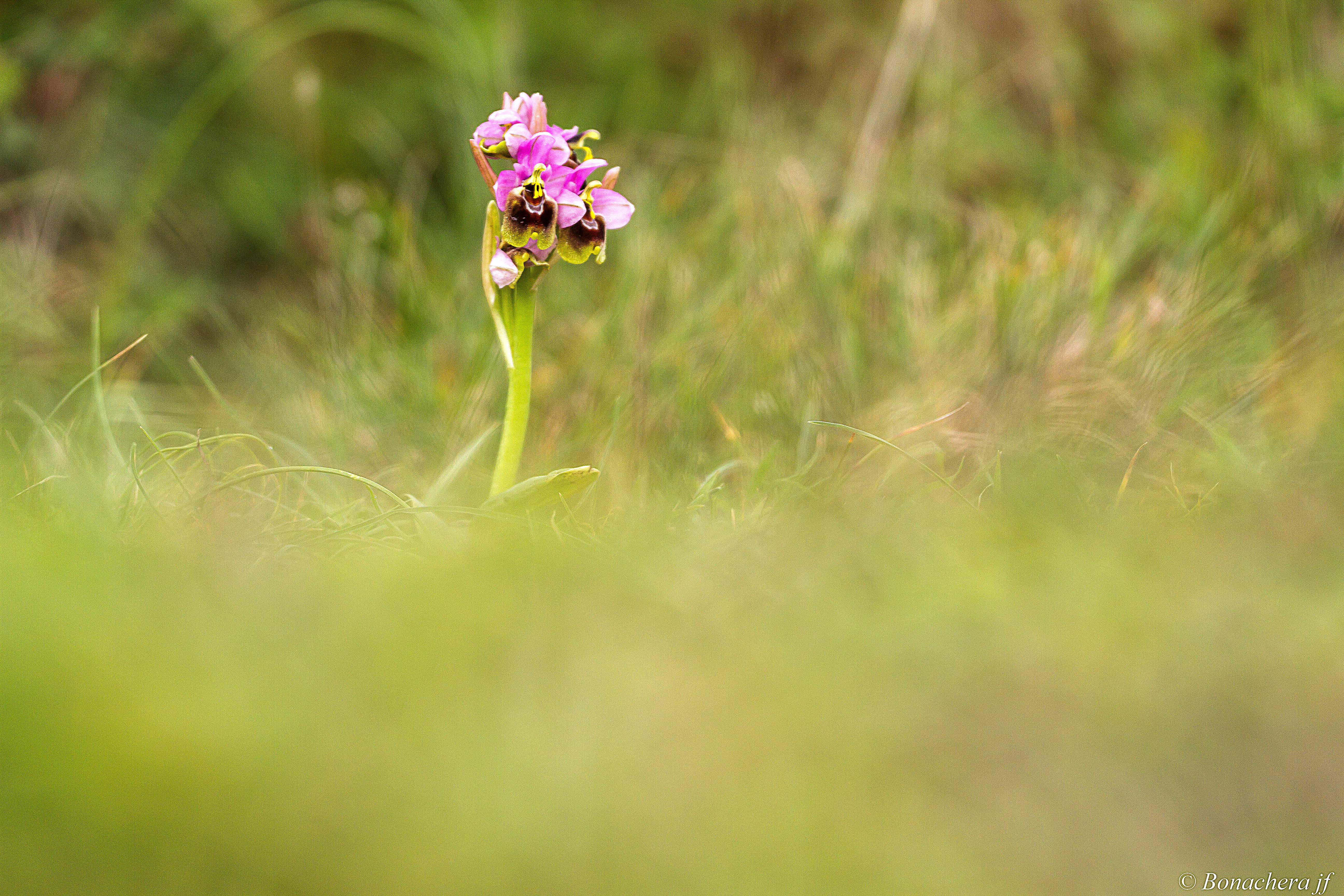 Ophrys tenthredinifera:Ophrys guèpe photographiée en mars 2018 à Bonifacio (Corse)